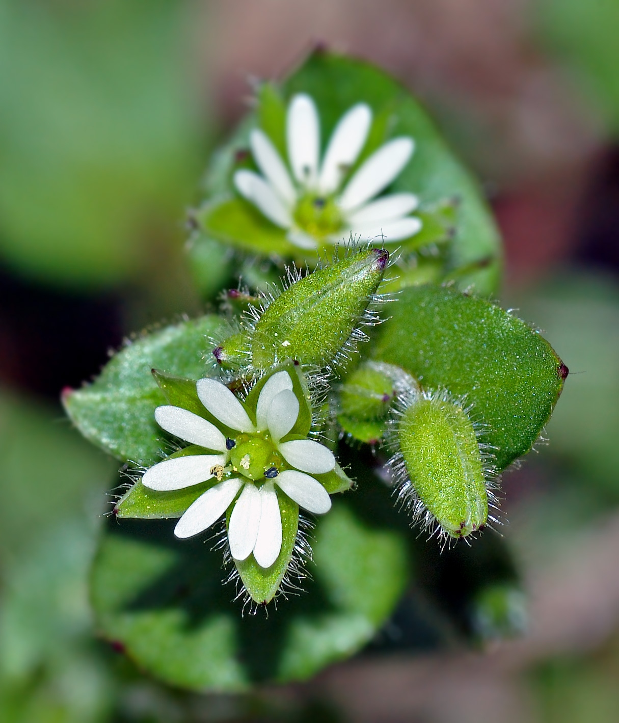 This image shows a macro photo of an only about 1 cm small Chickweed blossom (Stellaria media).